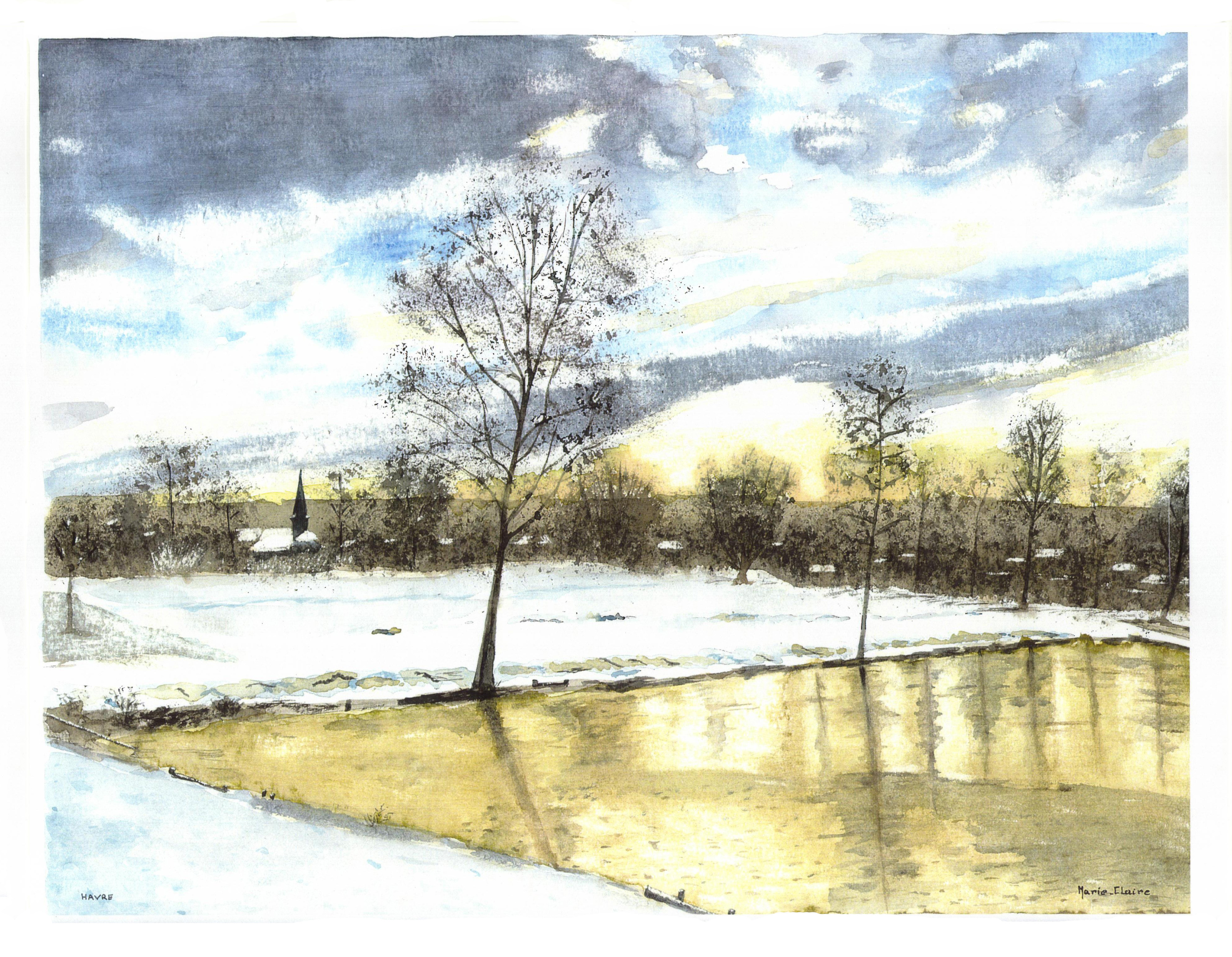 Havré (Belgium), the pound of the castle.